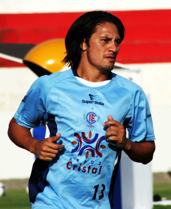 Ávalos at Itumbiara's practice.